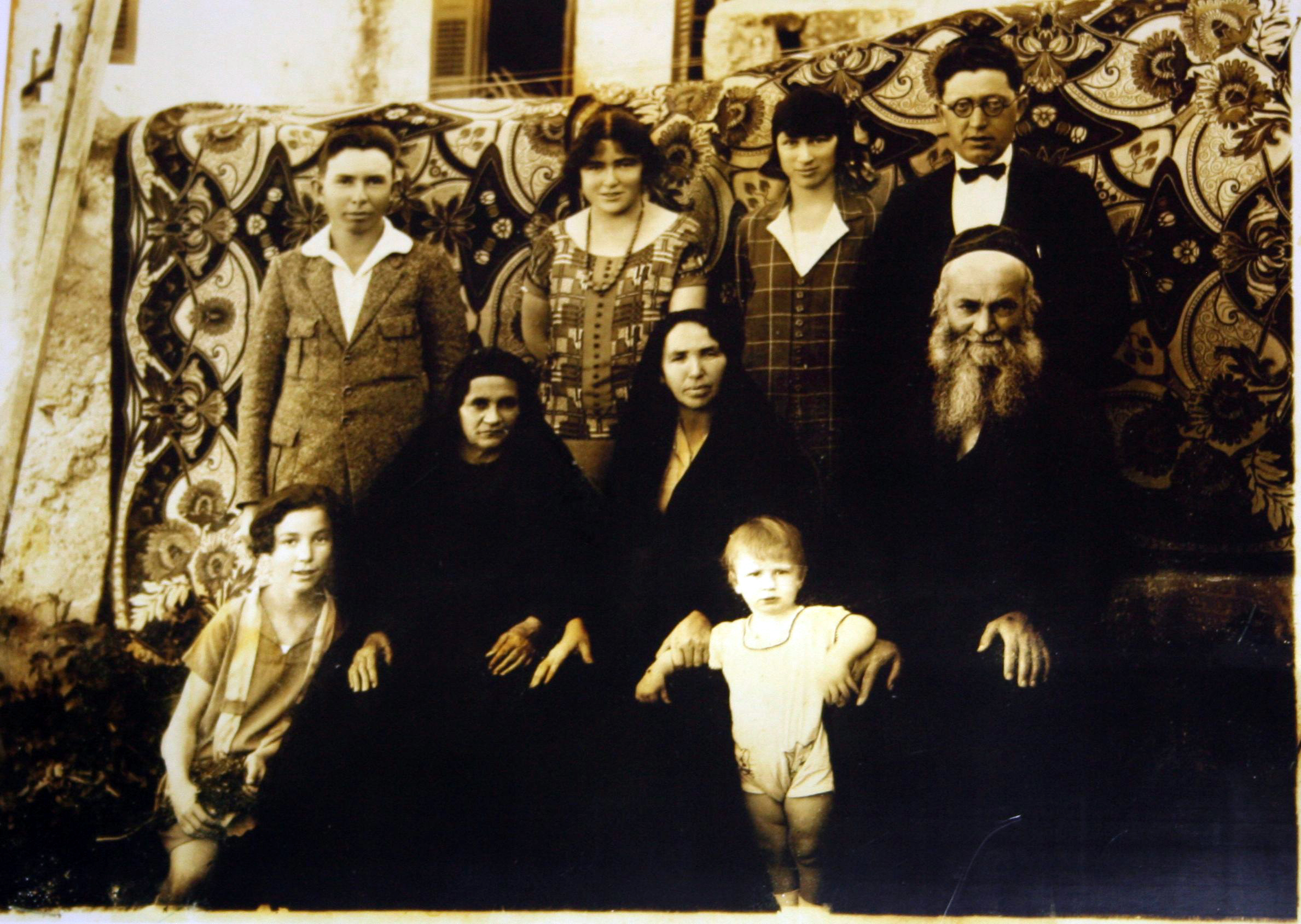 Family photo of Eliezer Dan Slonim (standing right, back row), his wife Chana Sara (standing next to him, back row) and family members.